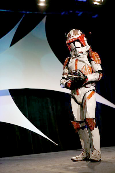 Photo by Scott Ruether. Read more at the Official Celebration IV blog. Costumes at Star Wars Celebration IV in 2007 at the Los Angeles Convention Center in Los Angeles.